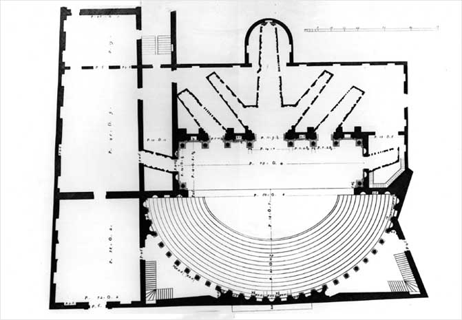 Teatro Olimpico in Vicenza by Andrea Palladio. Drawing by Ottavio Bertotti Scamozzi, 1776.